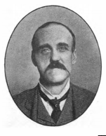 James Sexton, Secretary of the Dockers' Union. MP for St Helen's from 1918 to 1931.